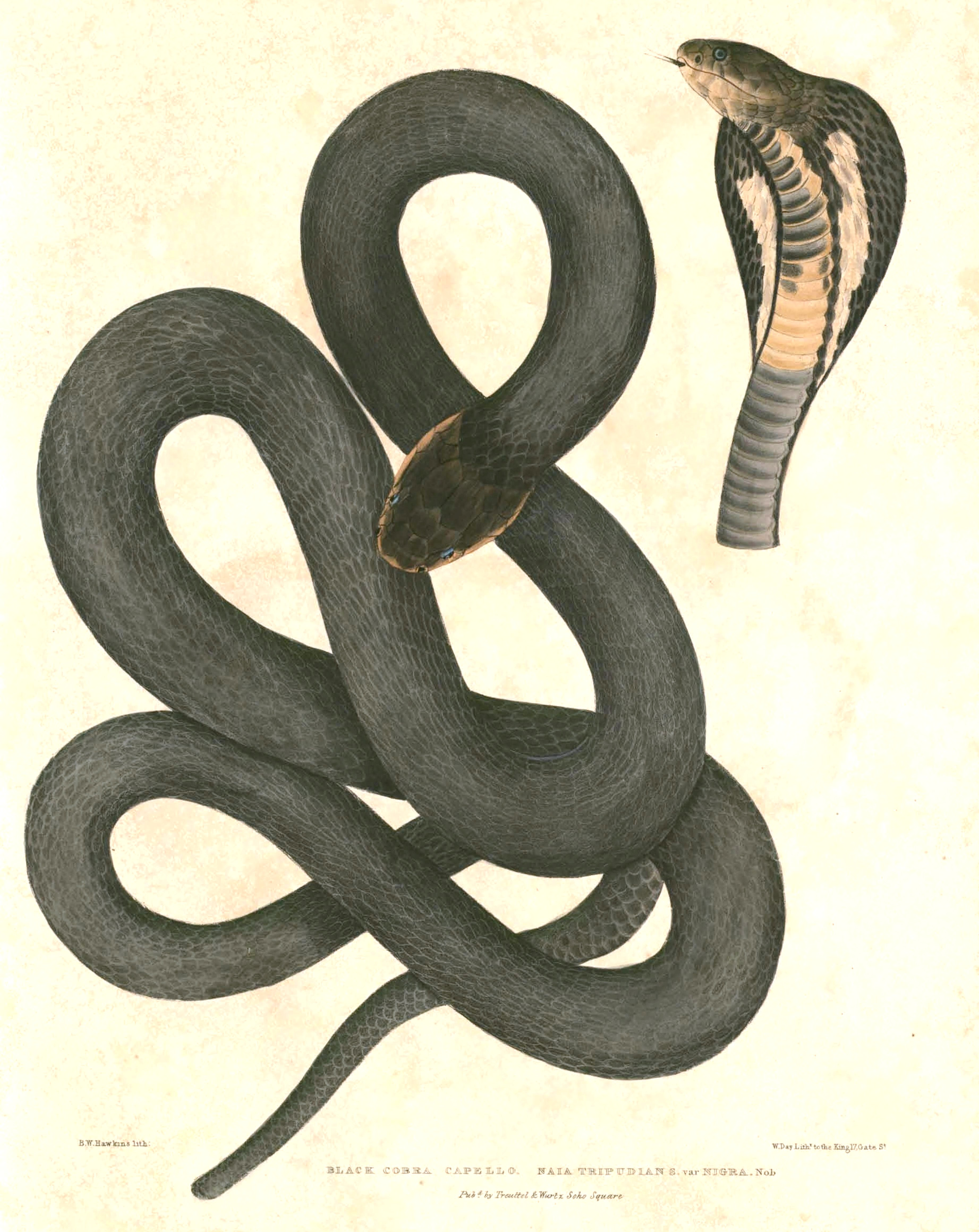 « Naia tripudians var. nigra » = Naja sumatrana (Equatorial spitting cobra)